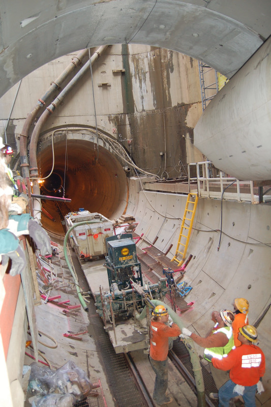 The Portland East Side Big Pipe project under construction.